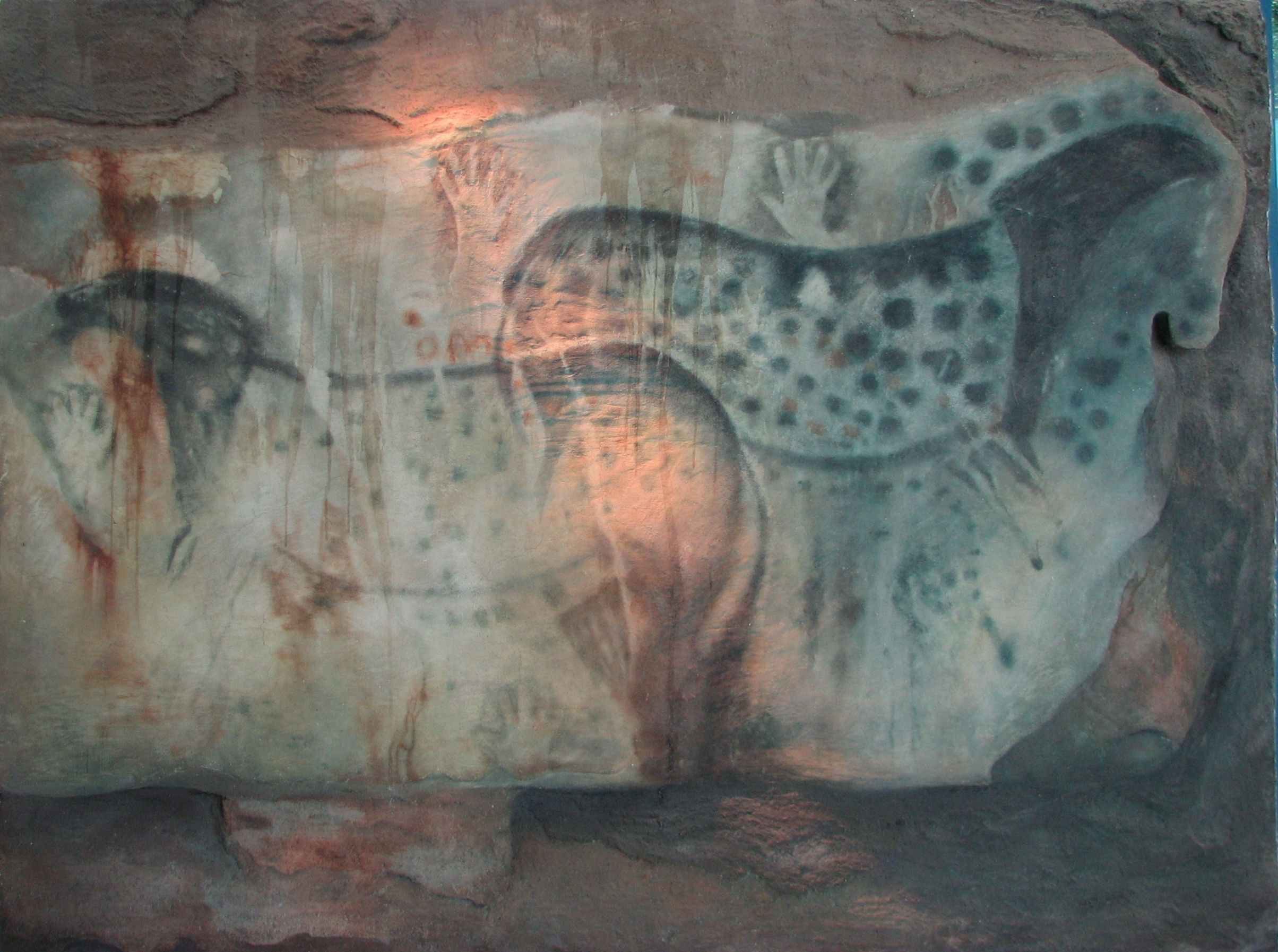 Painting of horses and hands from the Pech Merle cave. Gravettien. Replica in the Brno museum Anthropos.